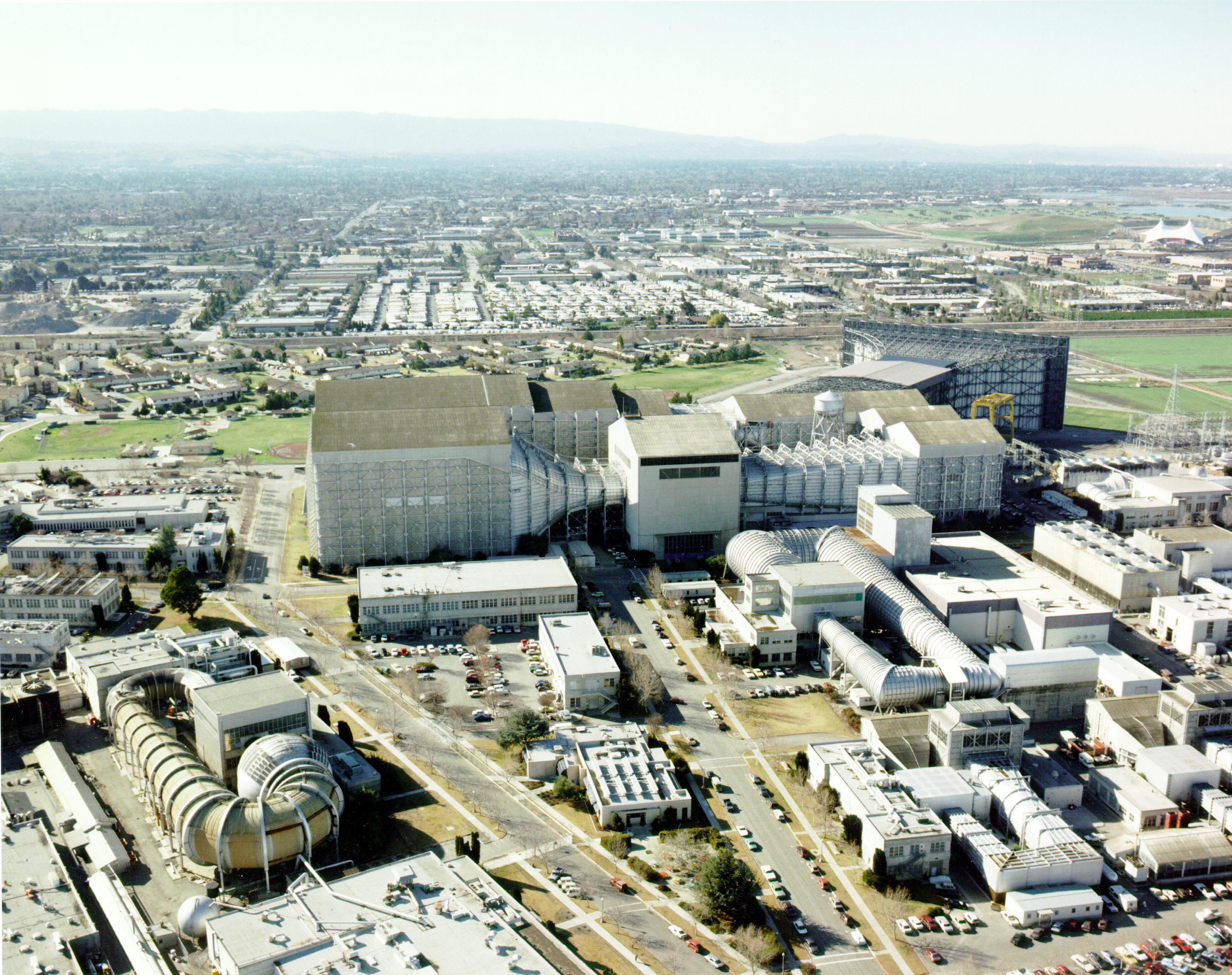 From left to right in a counterclockwise direction: The 12 Foot Pressure Wind Tunnel undergoes restoration. The large complex in the center of the photo is the 40 x 80 Foot Wind Tunnel, which has been designated a National Historic Landmark. Just below that is the 14 Foot Transonic Wind Tunnel and in the lower right adjacent to each other are the twin 7 x 10 Foot Wind Tunnels, (Tunnel #1 is on the right and #2 on the left).